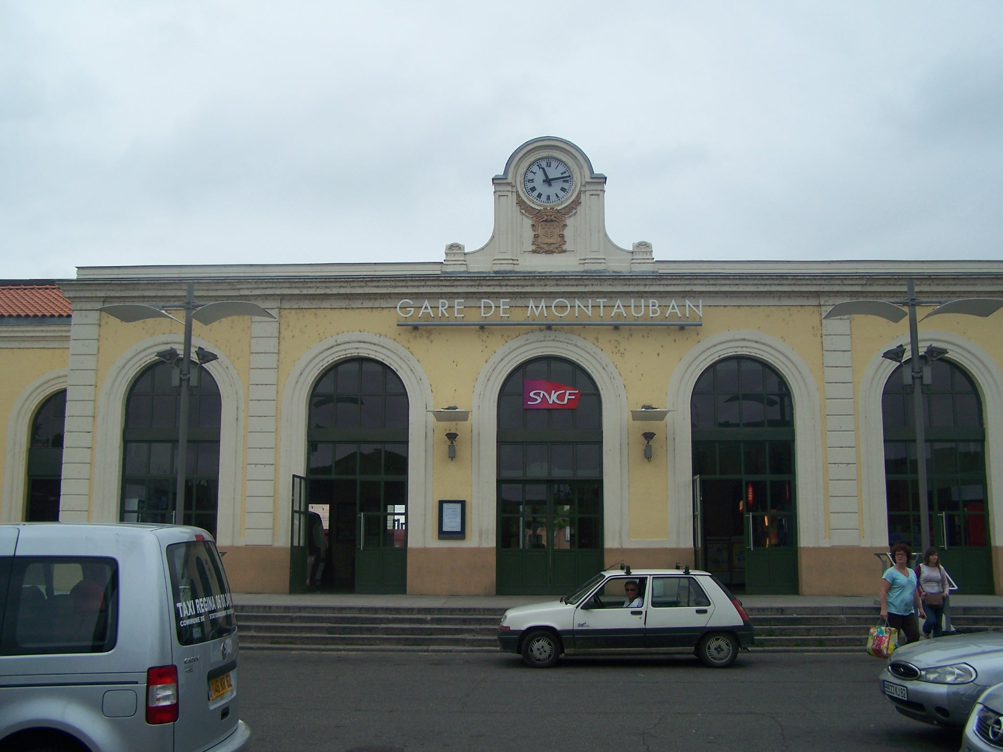 Front of the Montauban train station, in Tarn-et-Garonne (Midi-Pyrénées, France).